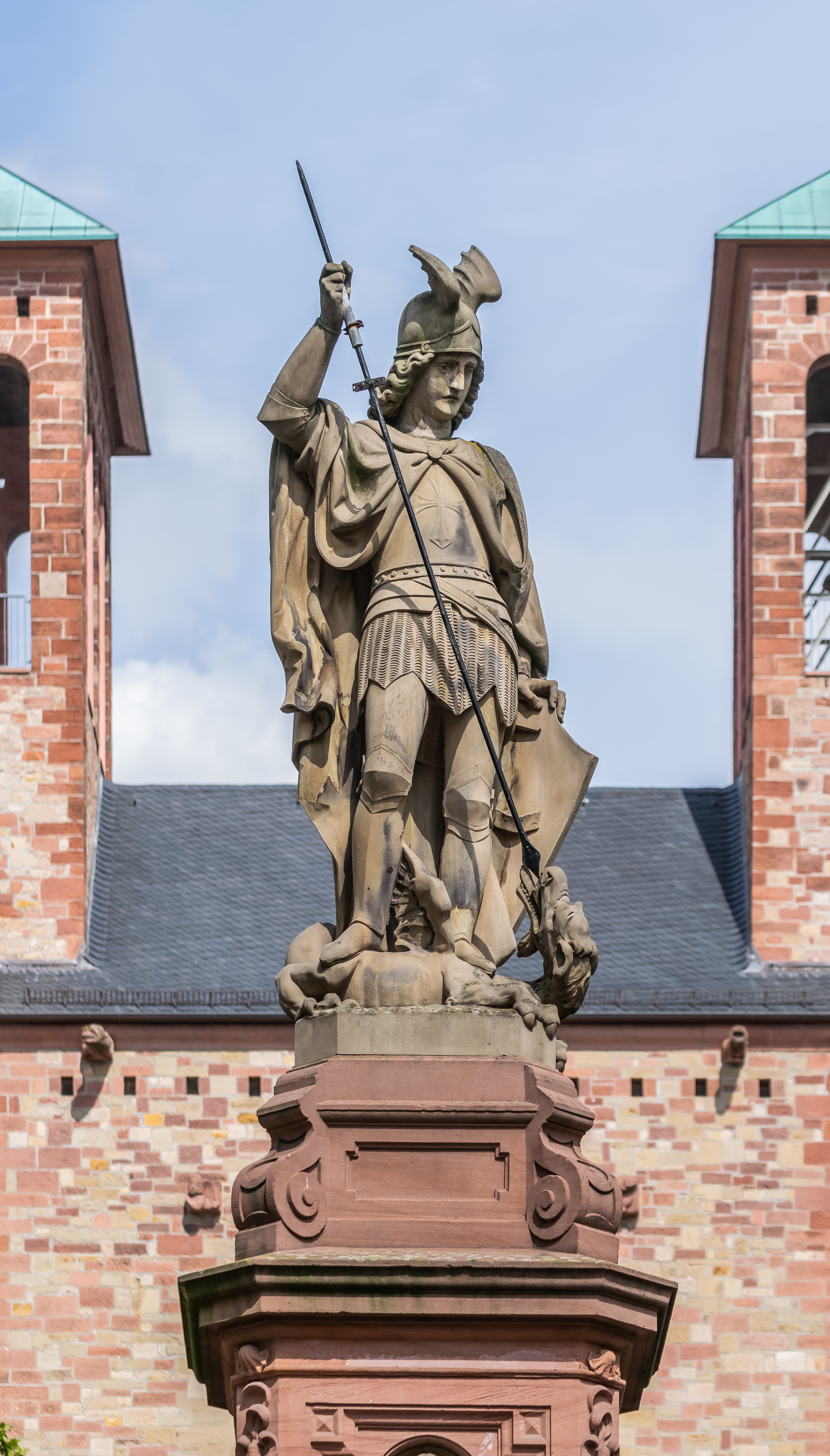 Marktburnnen at Marktplatz in Bensheim, Hesse, Germany